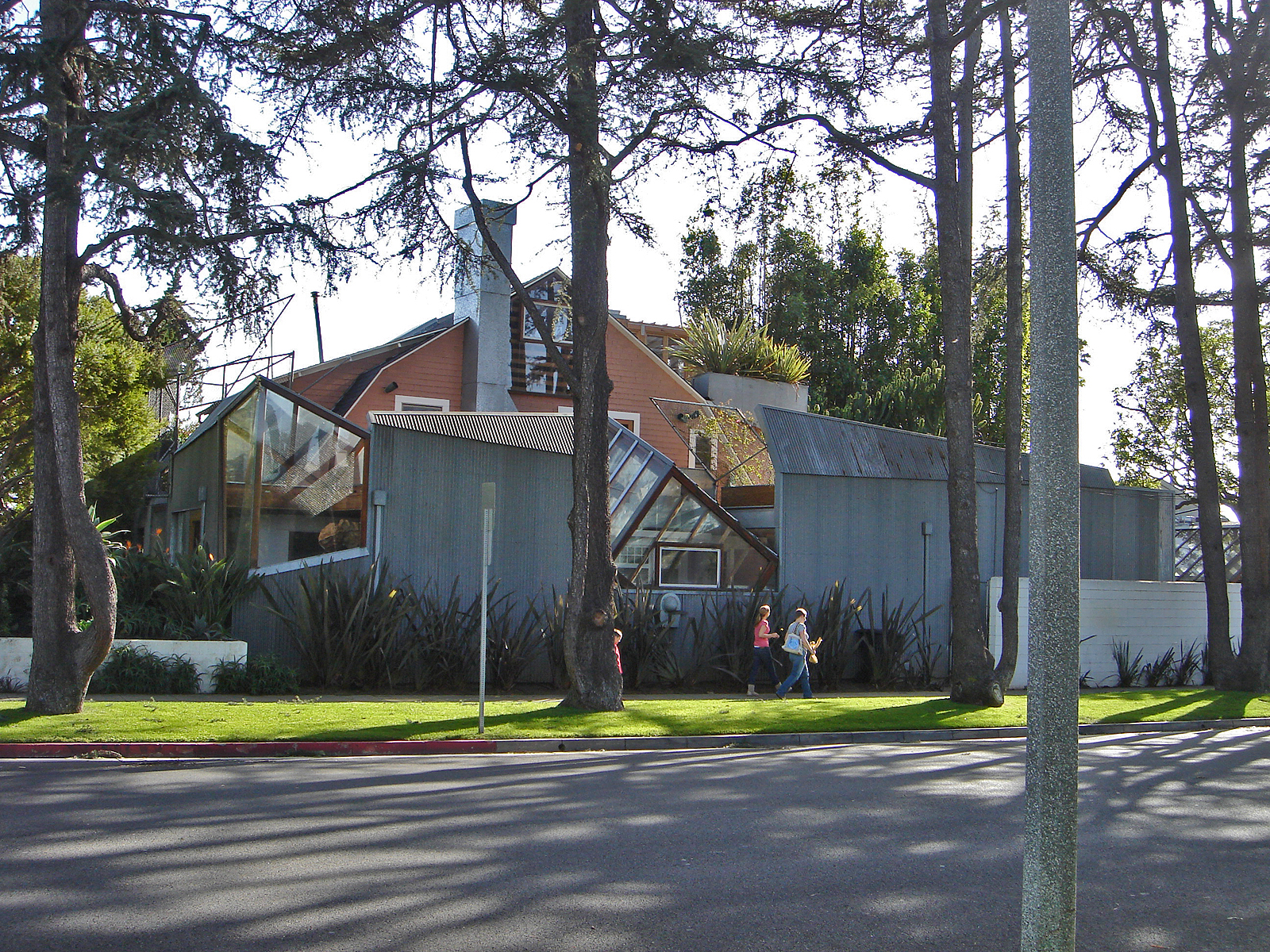 Frank Gehry's house in a posh area in Santa Monica. It is built upon an old house, with new elements added into the frame.